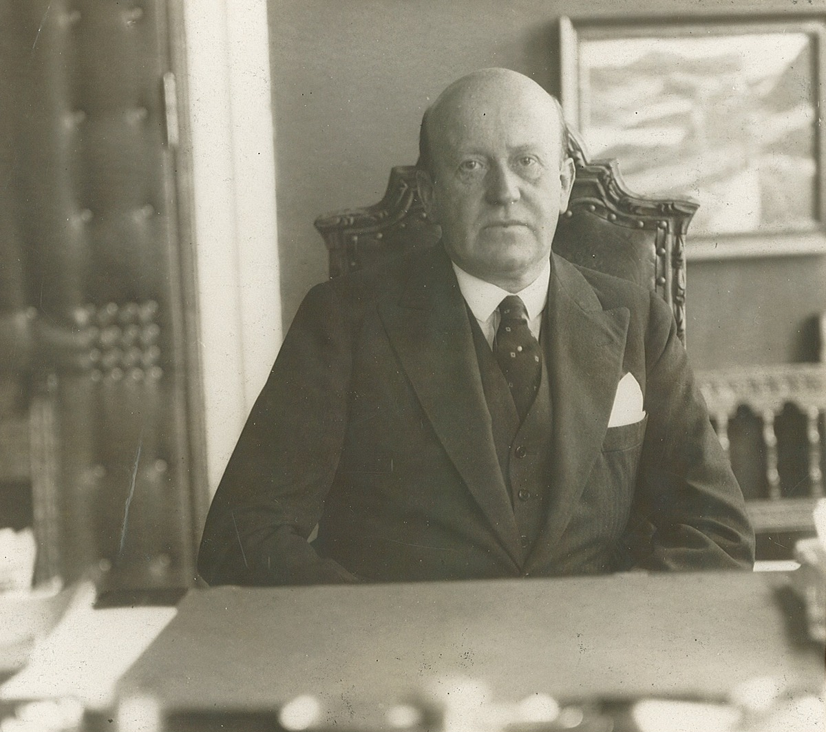 Norwegian banker and art collector Johannes Sejersted Bødtker (1879–1963) in a photo from the 1930s